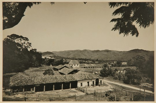 Fazenda do Pocinho: vista aérea.